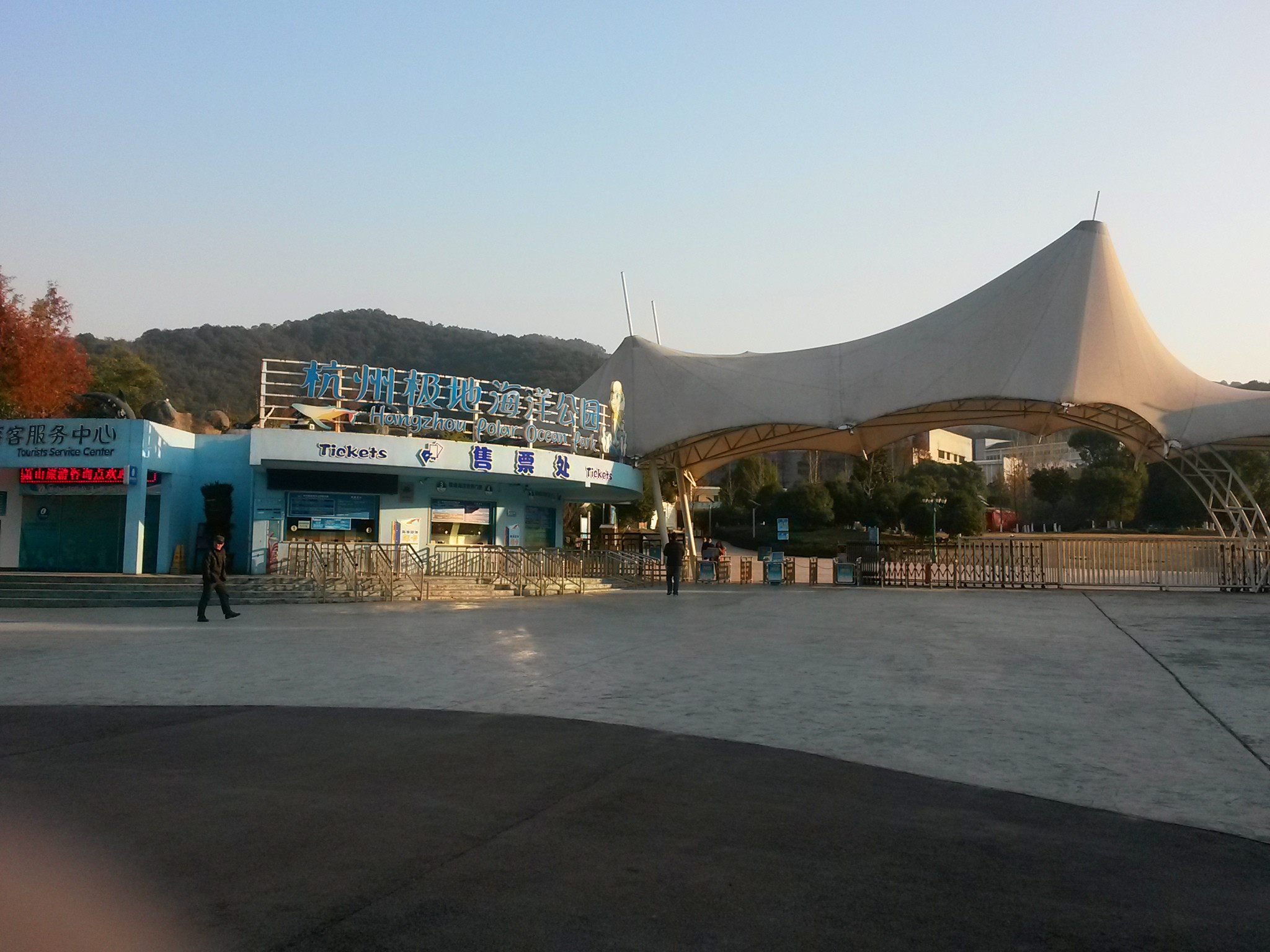 Hangzhou Polar Ocean Park